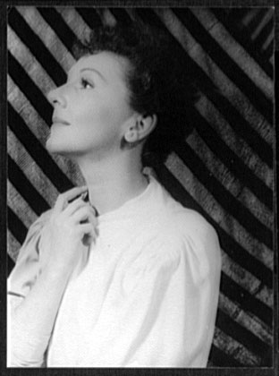 Portrait of Mary Martin (1913–1990), American Actress and Vocalist Portrait of Mary Martin (1949 Jan. 12)